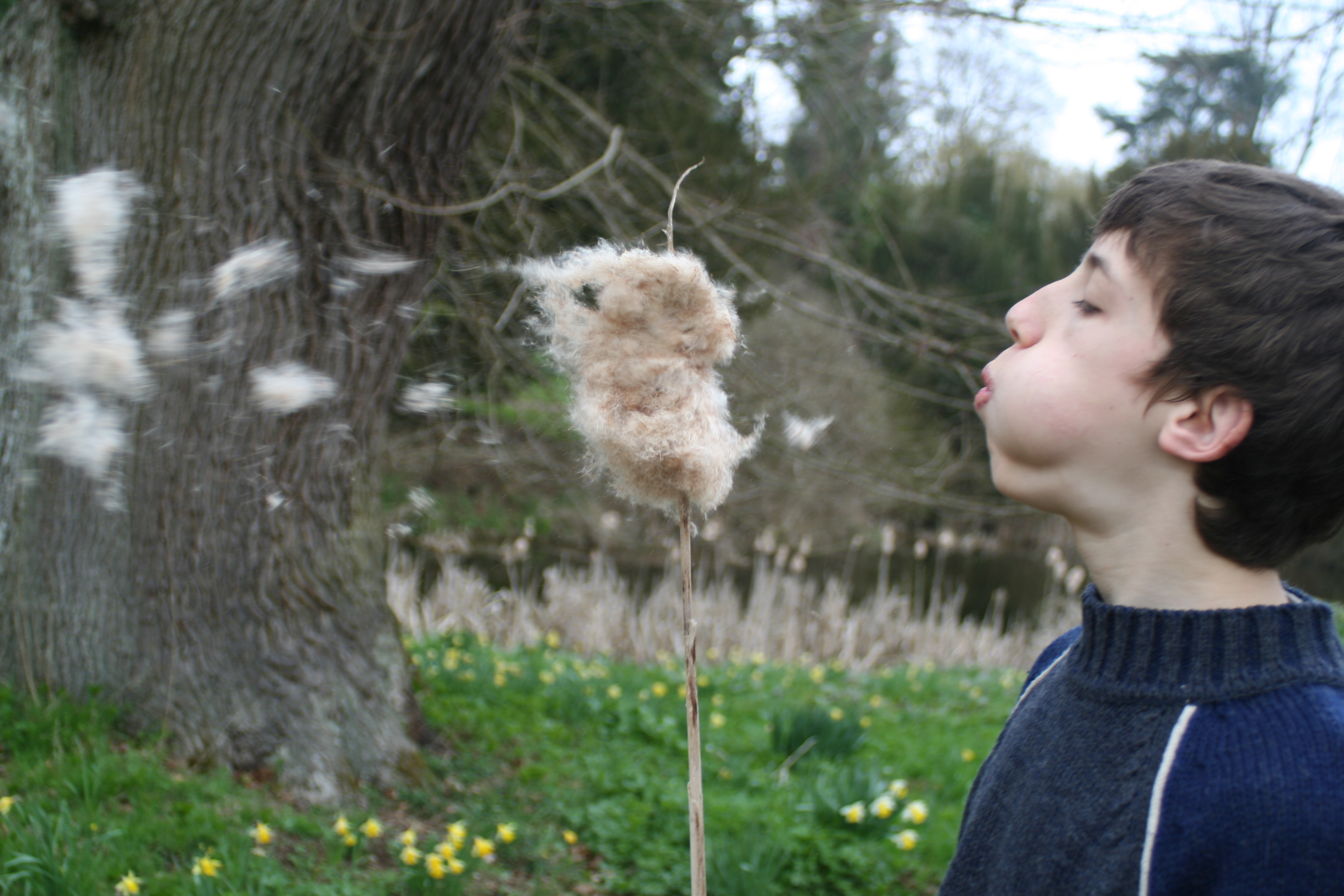 Person blowing at a Typha latifolia (bullrush) seed head. Picture by Neil Marshman (c) - see metadata.